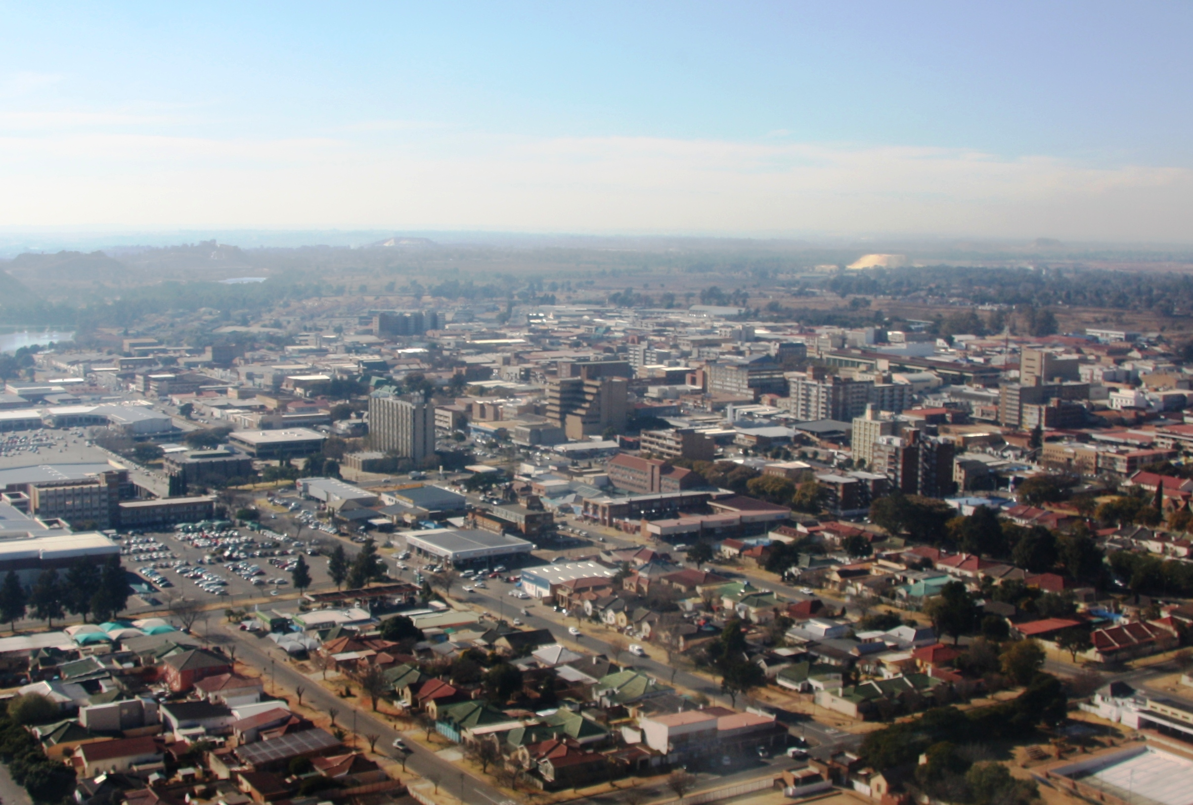 The Central Business District of Benoni